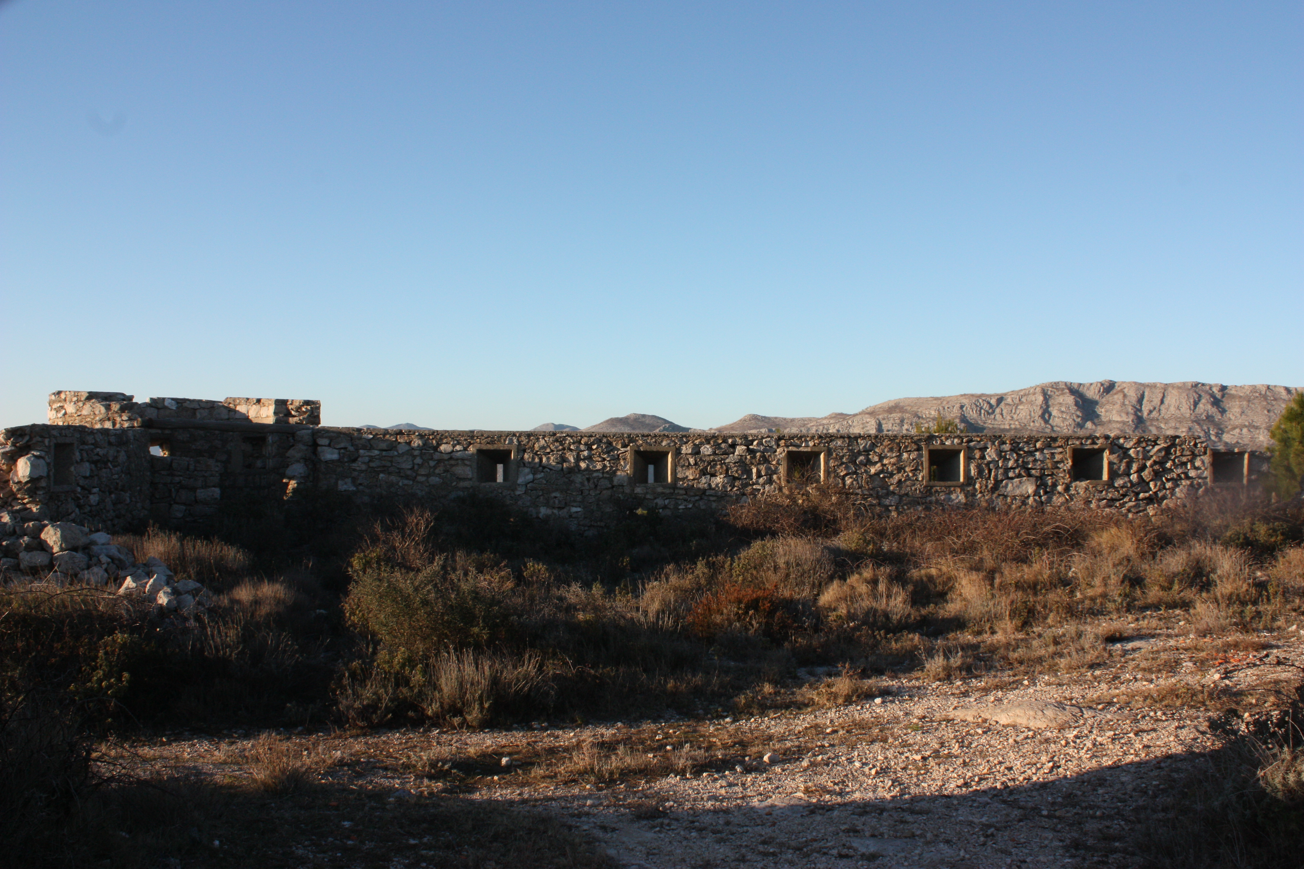 Fort Strinčjera, Dubrovnik